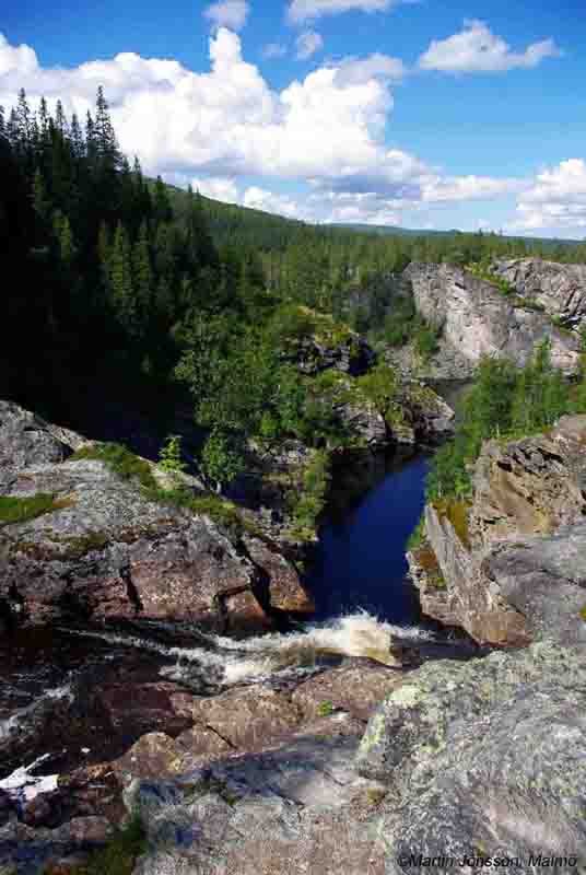 From the top of the waterfall